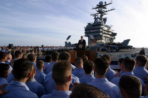 President George W. Bush addresses sailors and the nation from the flight deck of the USS Abraham Lincoln of the coast of San Diego, California May 1, 2003. A "Mission Accomplished" banner - which refers to operation Iraqi Freedom - hangs from the control tower in the background.